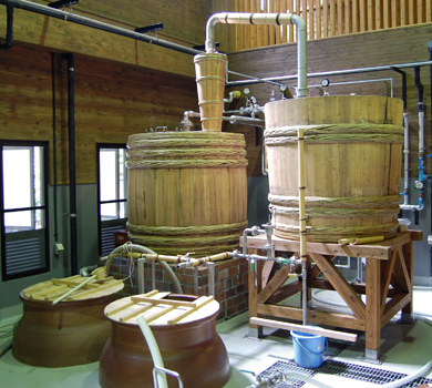 A wooden pot still in Kagoshima, Japan.